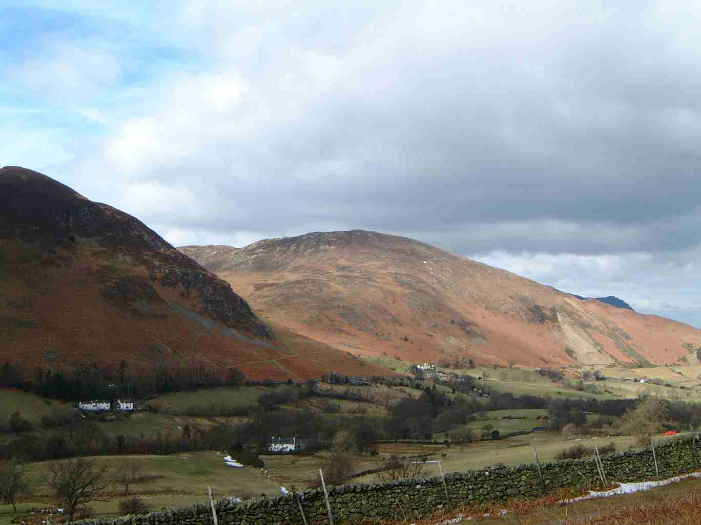 Personal photograph taken on March 20th 2006 by Mick Knapton